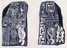 image